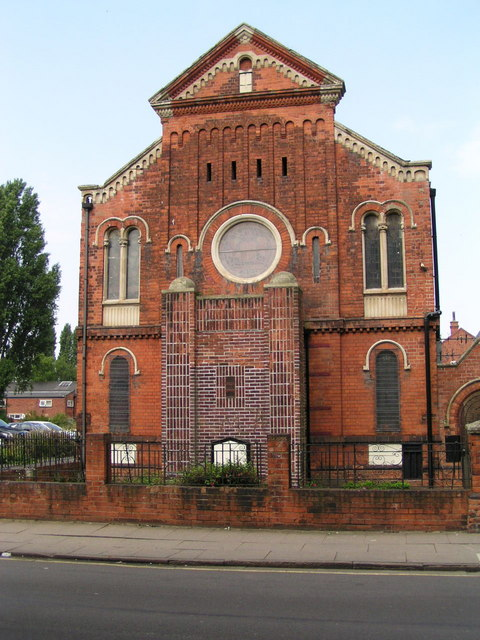 Sir Moses Montefiore Synagogue, Heneage Road, Grimsby, Lincolnshire, seen from the south. Also known as Grimsby Hebrew Congregation, the community was founded in 1742. The foundation stone was laid in July 1885 and the Synagogue officially opened on 11 December 1889.